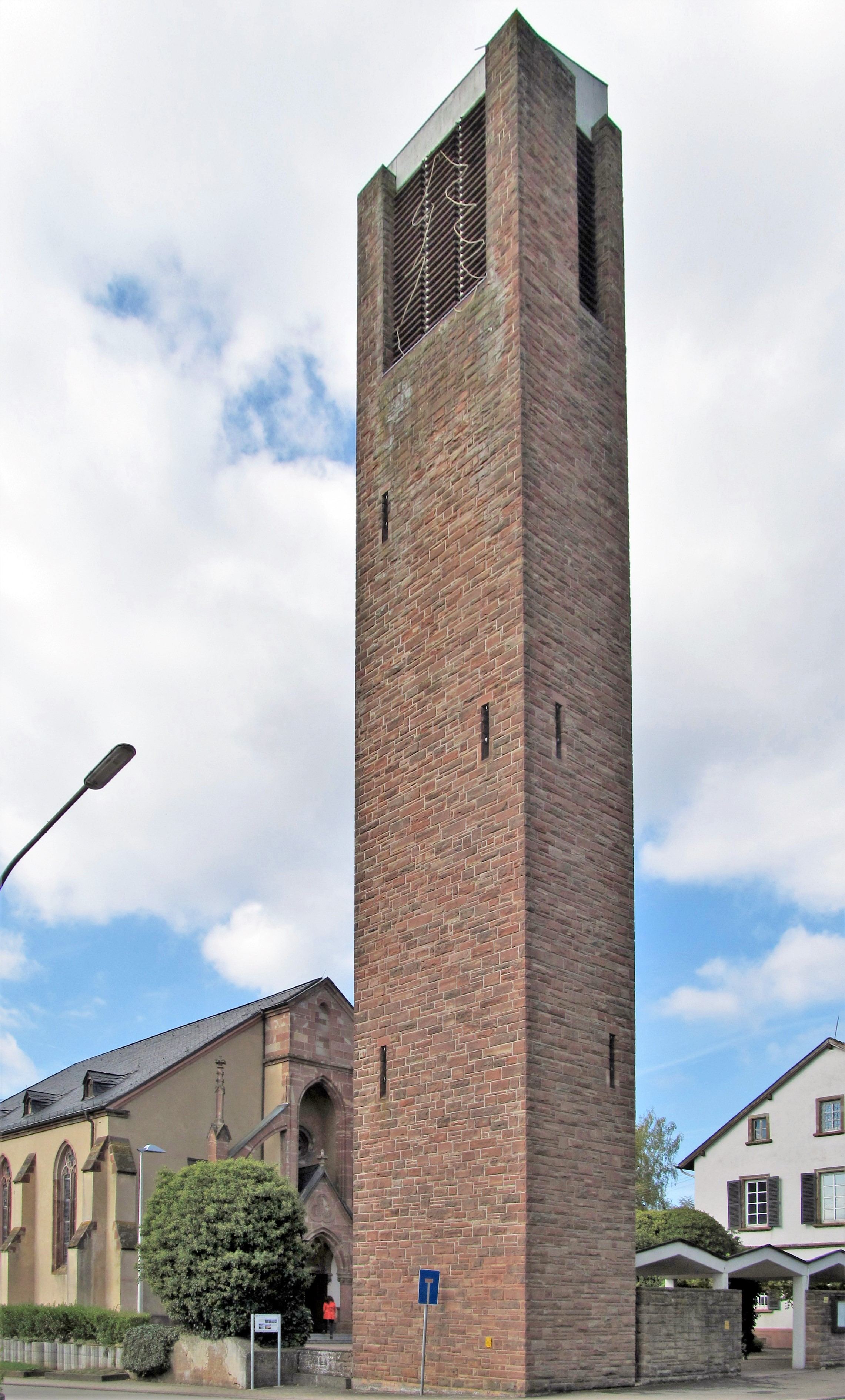 The Catholic Church of St. Walfridus in Rilchingen-Hanweiler, in the municipality of Kleinblittersdorf, Regional Saarbruecken